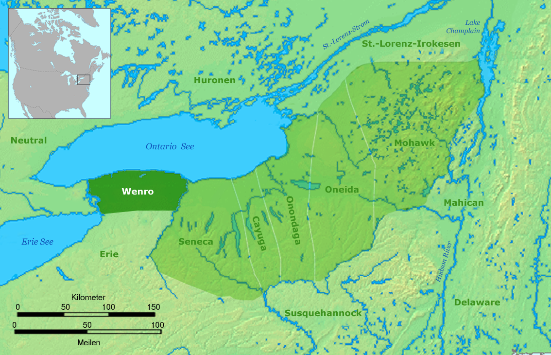 Tribal territory of Wenro about 1630